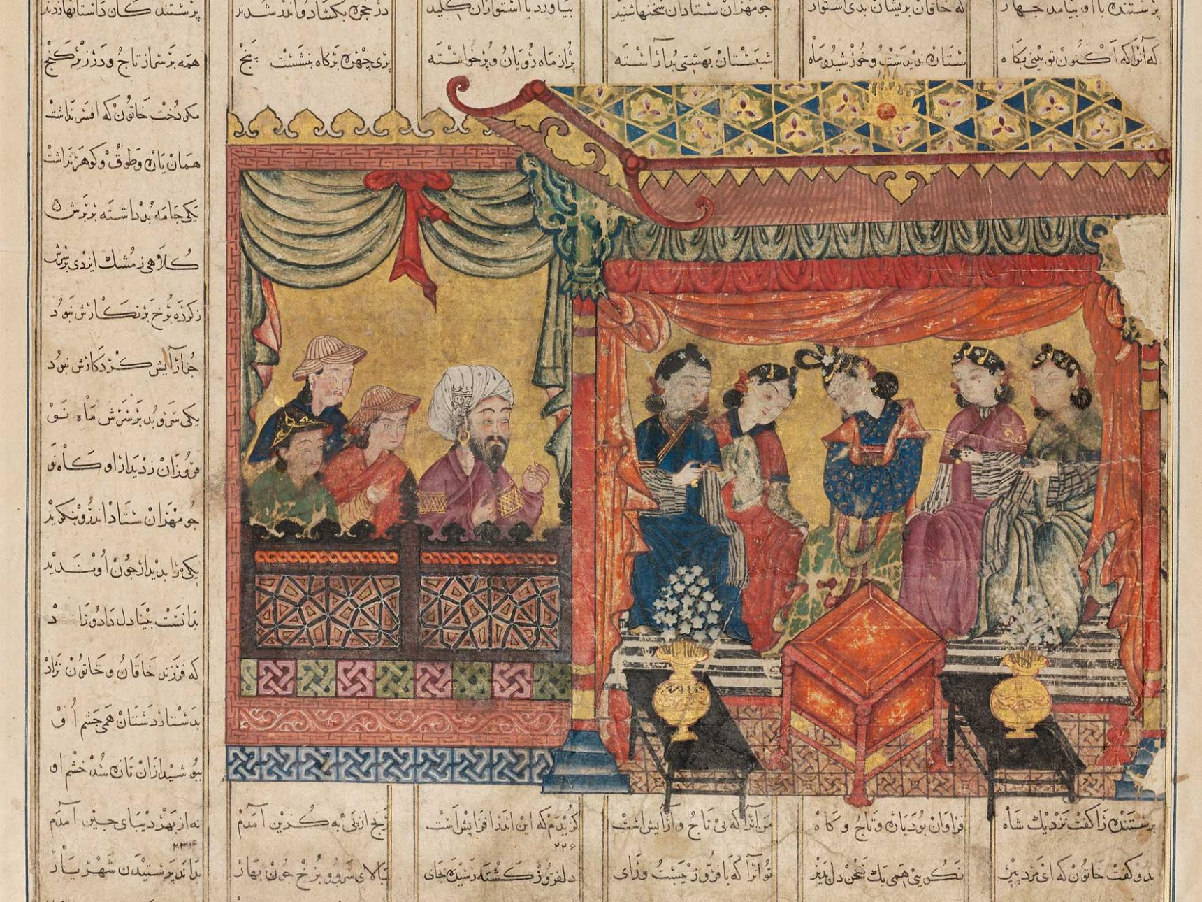 Mihran Sitad selects bride for the Persian king, from five daughters of the Chinese emperor. In the tale, the Chinese emperor tries to hide his favorite daughter by dressing her plainly. From Tabriz, Iran c. 1330-1340. Ink, watercolor, and gold on paper.